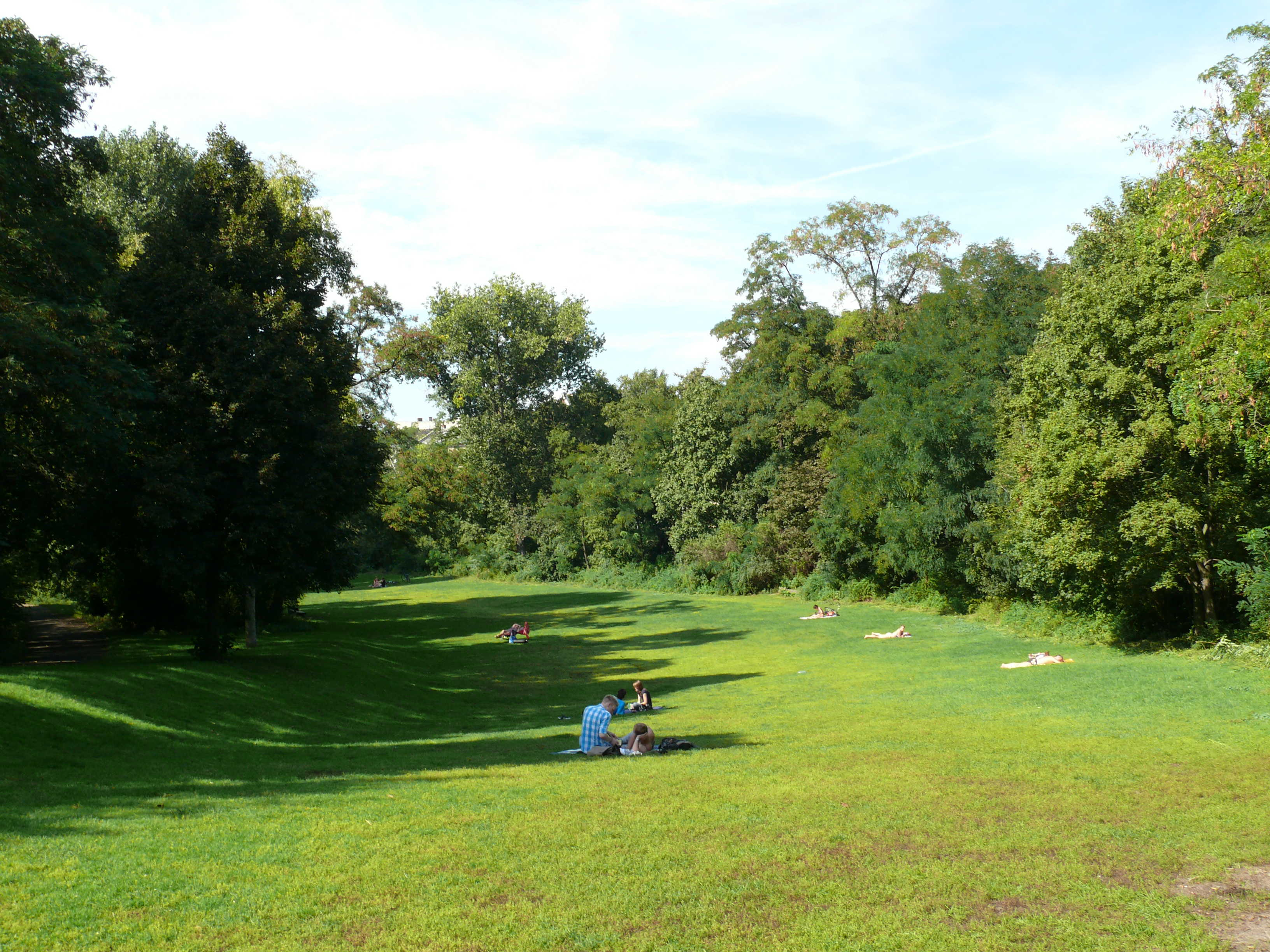 Berlin-Moabit Fritz-Schloß-Park lawn